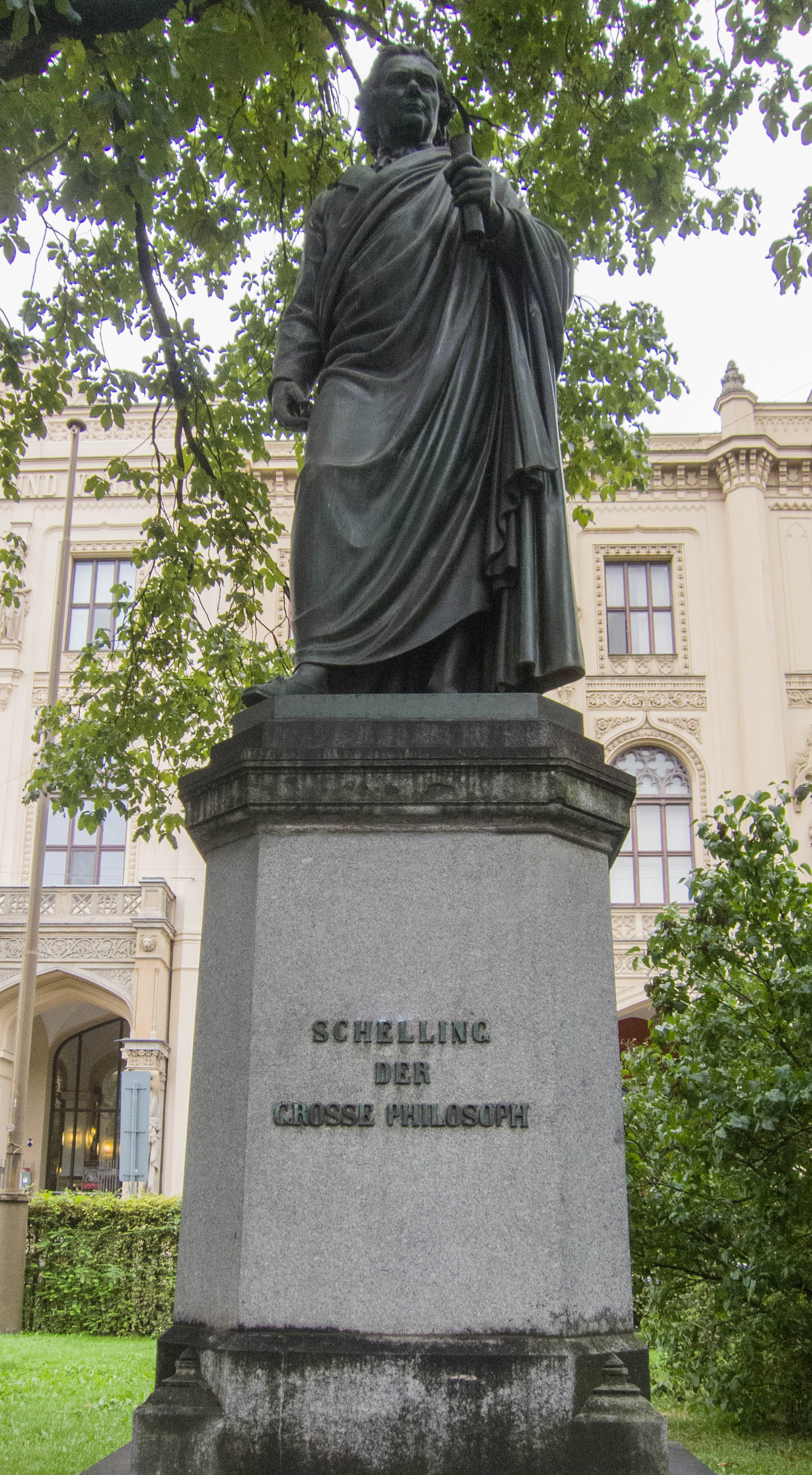 Schelling statue in Munich